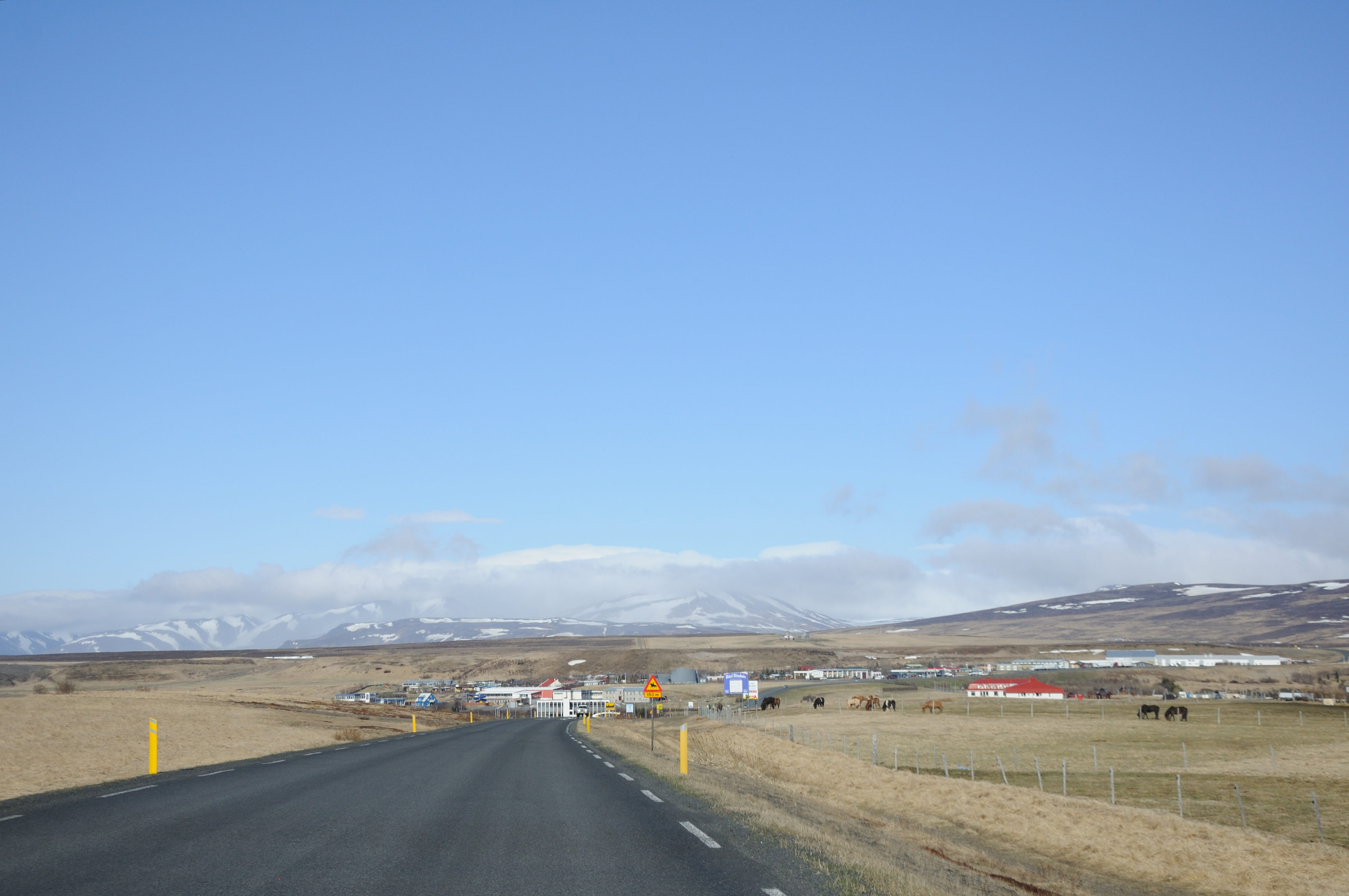 Iceland, impressions on road 1 (Hringvegur) between Hvammstangi and Varmahlíð